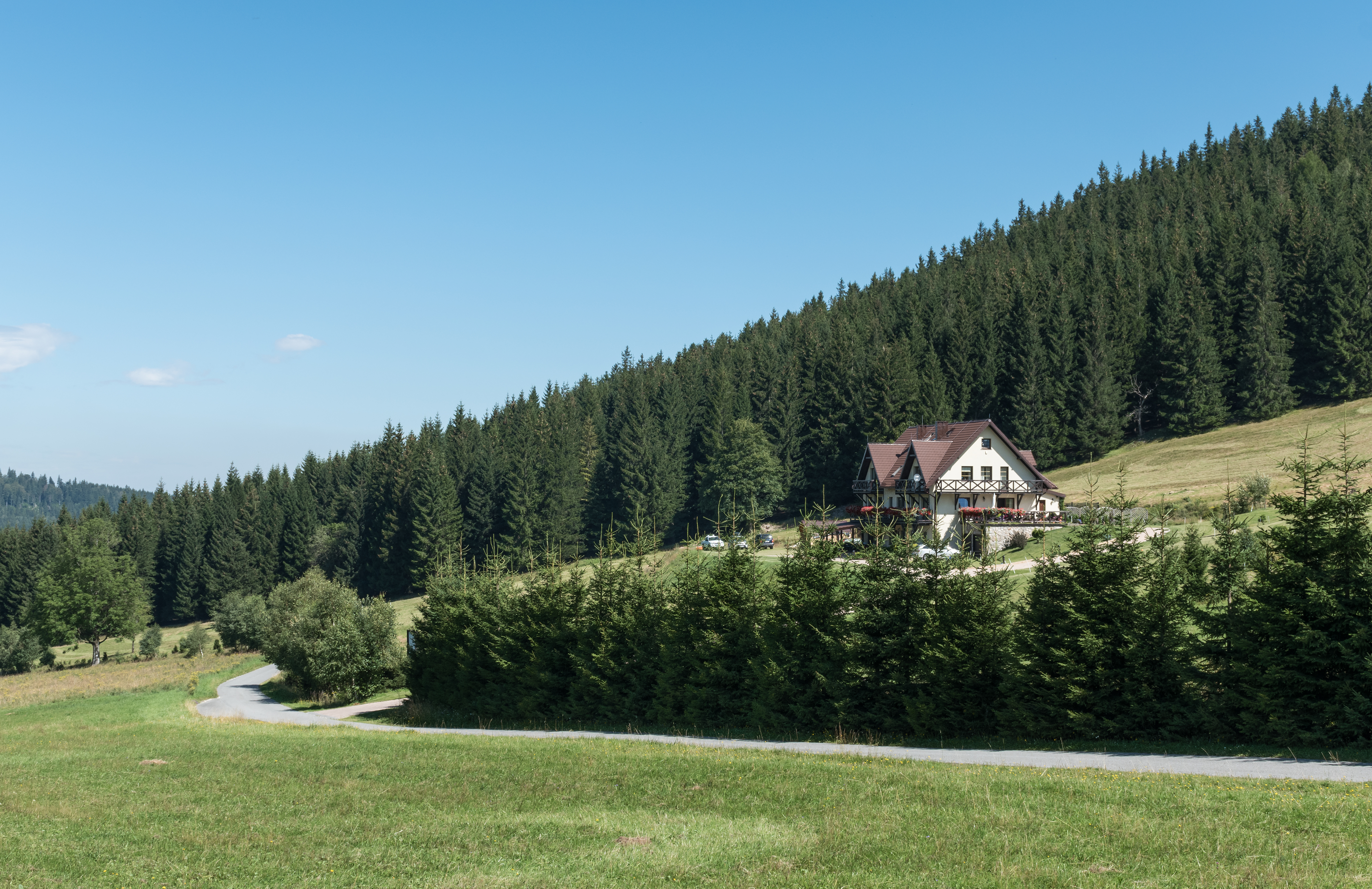 House in Janowa Góra